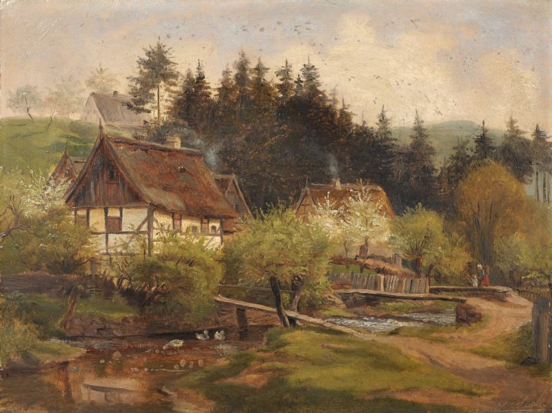 Painting by Ludwig Pietsch (1824-1911)